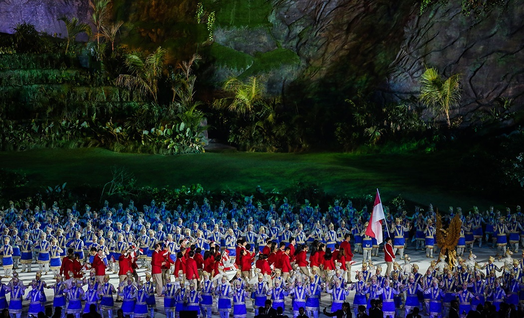 2018 Asian Games opening ceremony